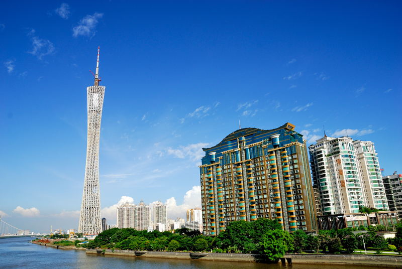 广州新地标Scenery in Guangzhou, China